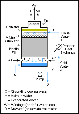 The sketch is a diagram of an evaporative cooling tower system as widely used in oil refineries, chemical plants, power plants and other industrial uses.